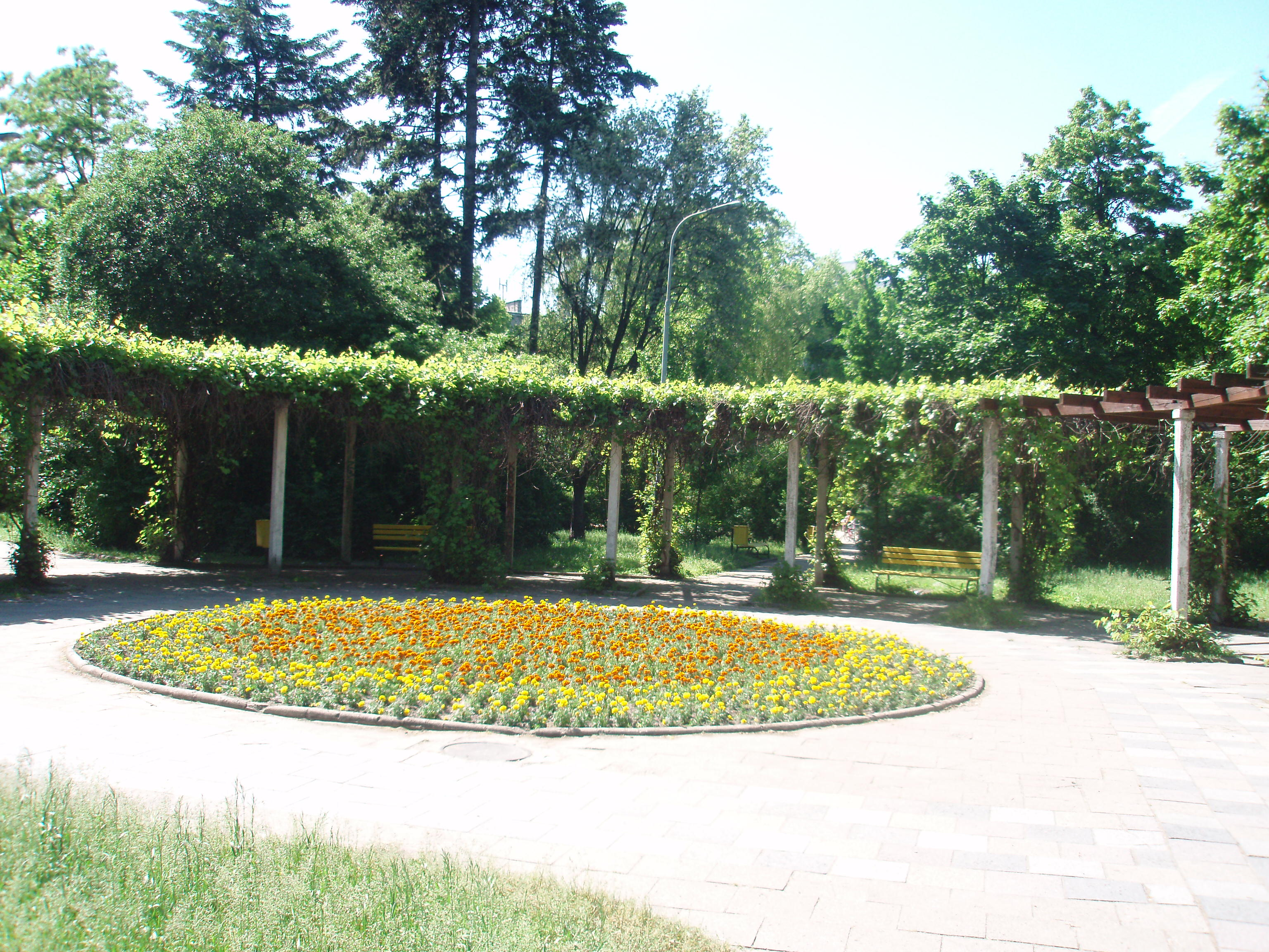 Park near Lecznicza Street